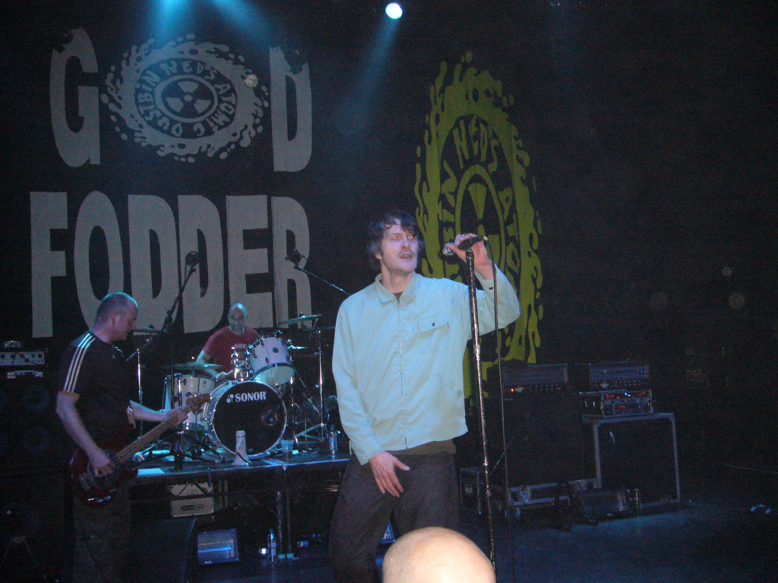 John Penney, Ned's Atomic Dustbin playing Shepherd's Bush Empire, London in December 2009